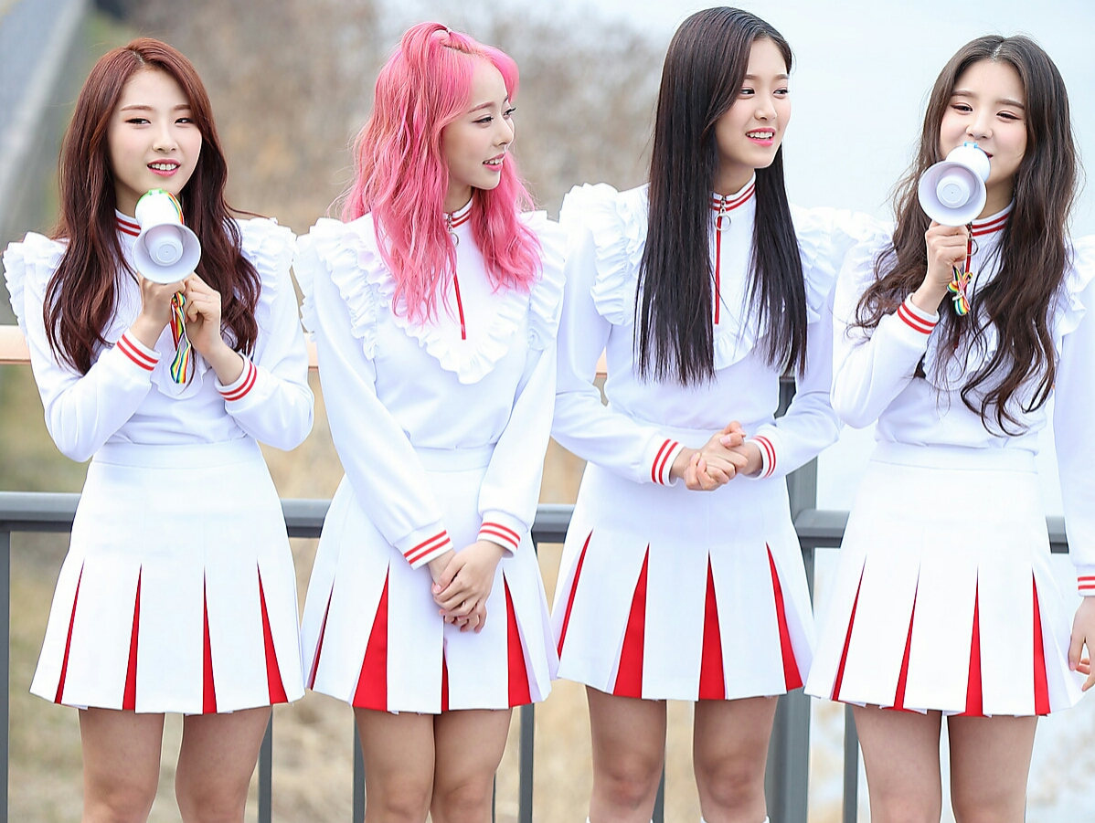 LOOΠΔ 1/3 at Inkigayo Mini Fan Meeting on March 12, 2017.